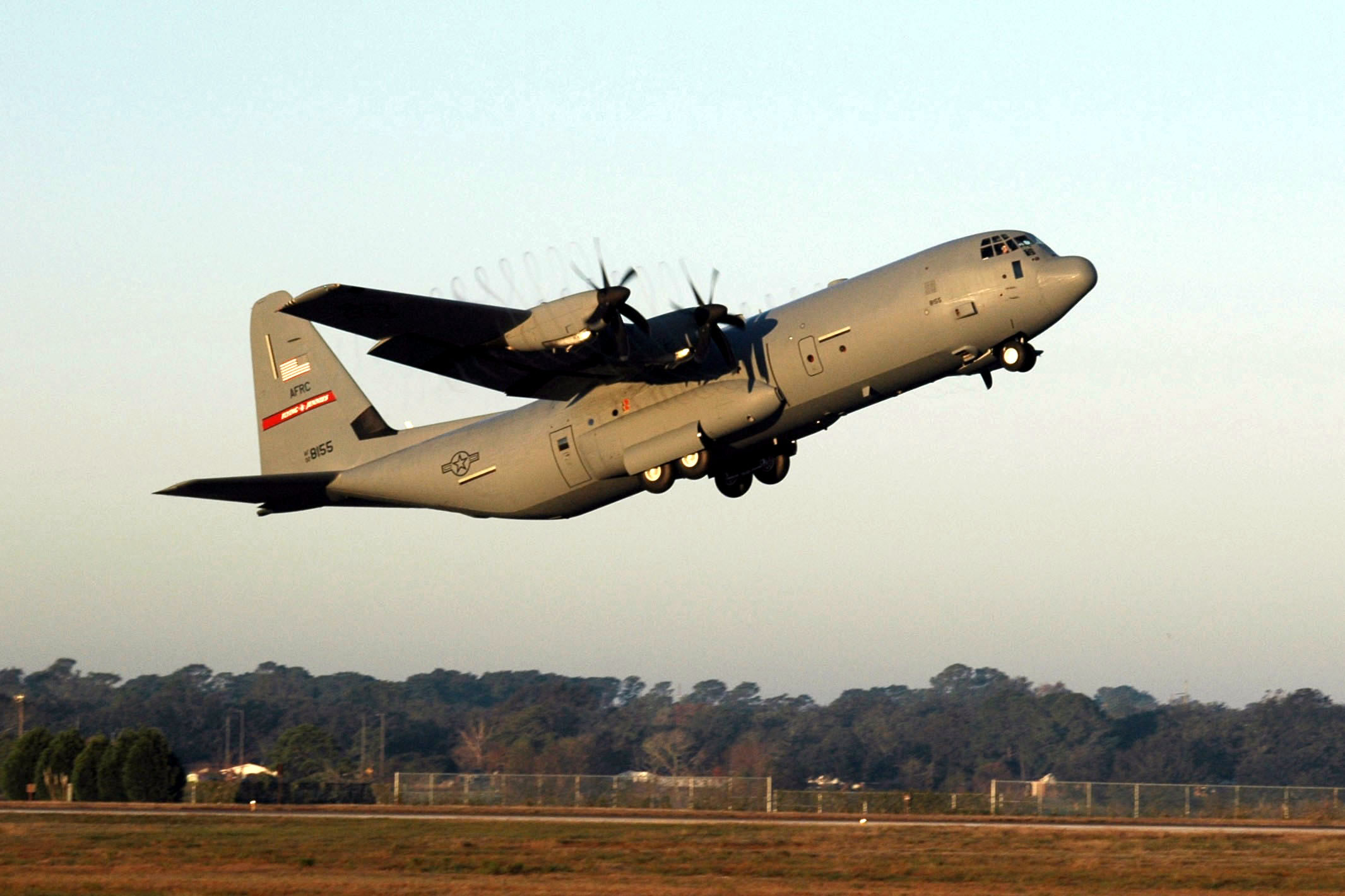 A WC-130J Hercules, also known as a Hurricane Hunter, takes off with an aircrew from the 815th Airlift Squadron and support members from the 403rd Wing at Keesler Air Force Base, Miss. Airmen and two Hurricane Hunters from Keesler AFB are on a month-long mission to support the winter storm reconnaissance program in Anchorage, Alaska.